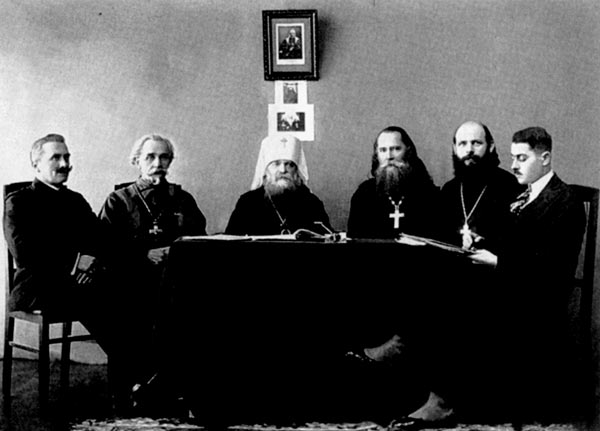 The diocesan council of Vilnius and Lithuania Orthodox diocese with its head, the metropolitan Elevferiy.